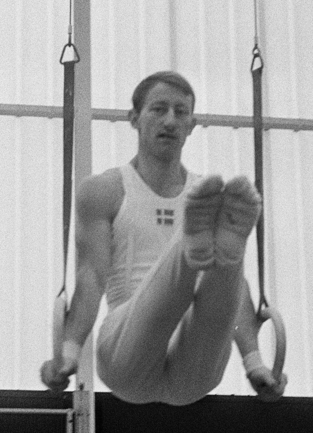 Nederland tegen Denemarken turnen te Zaandam. Hans Peter Nielsen (kampioen Denemarken) aan ringen in aktie